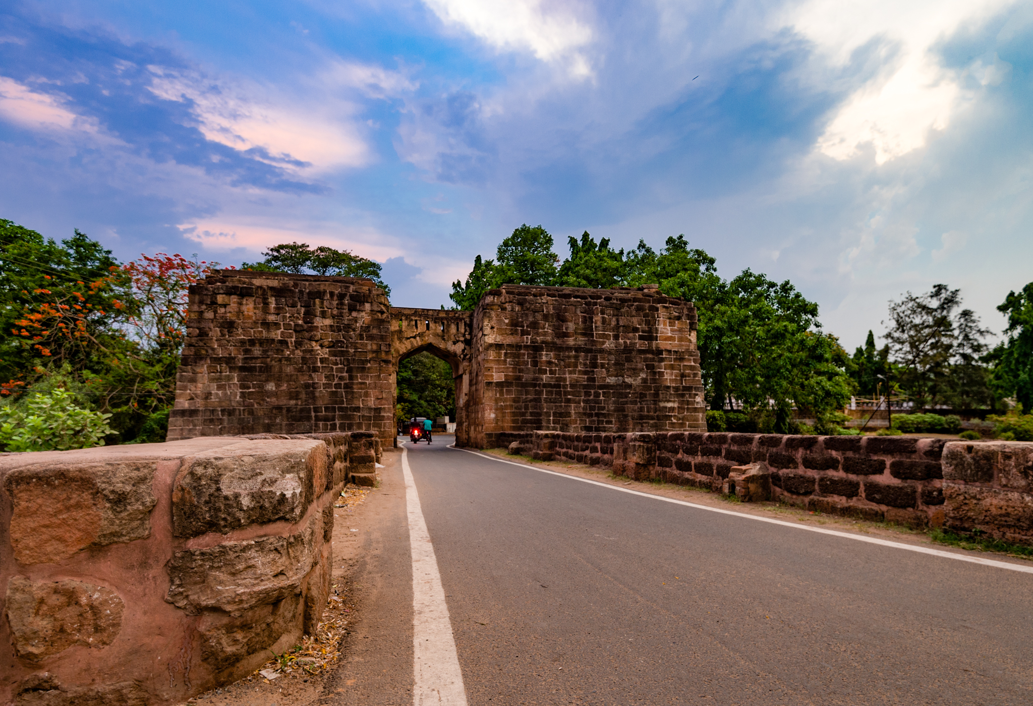 Barabati Fort - Barabati Fort is a 14th-century fort built by the Ganga dynasty near Cuttack, Odisha. The ruins of the fort remain with its moat, gate, and the earthen mound of the nine-storied palace, which evokes the memories of past days.